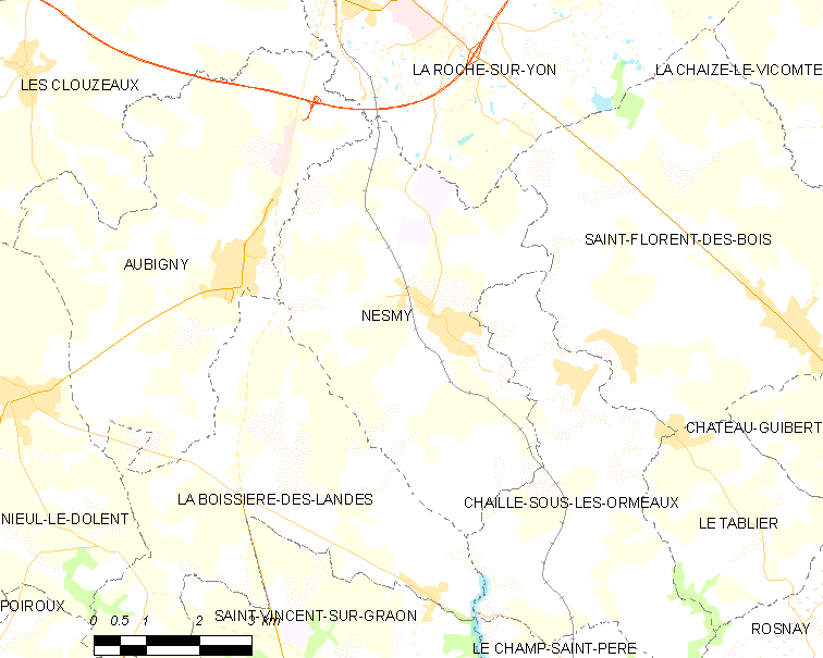 Map of French municipality Nesmy